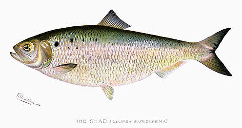 A depiction of a shad fish, as taken from the author's published portfolio of prints in 1902. This print was published on p. 130 of the First Annual Report of the Commissioners of Fisheries, Game, and Forests of the State of New York (1896).[1]